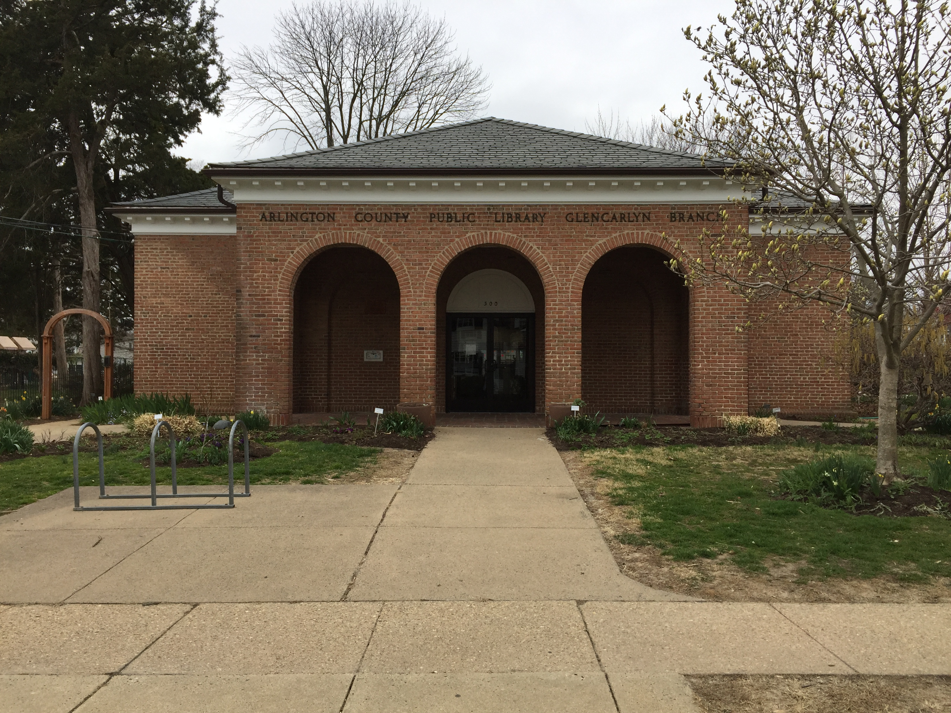 Glencarlyn Branch Library in Arlington, Virginia in 2018